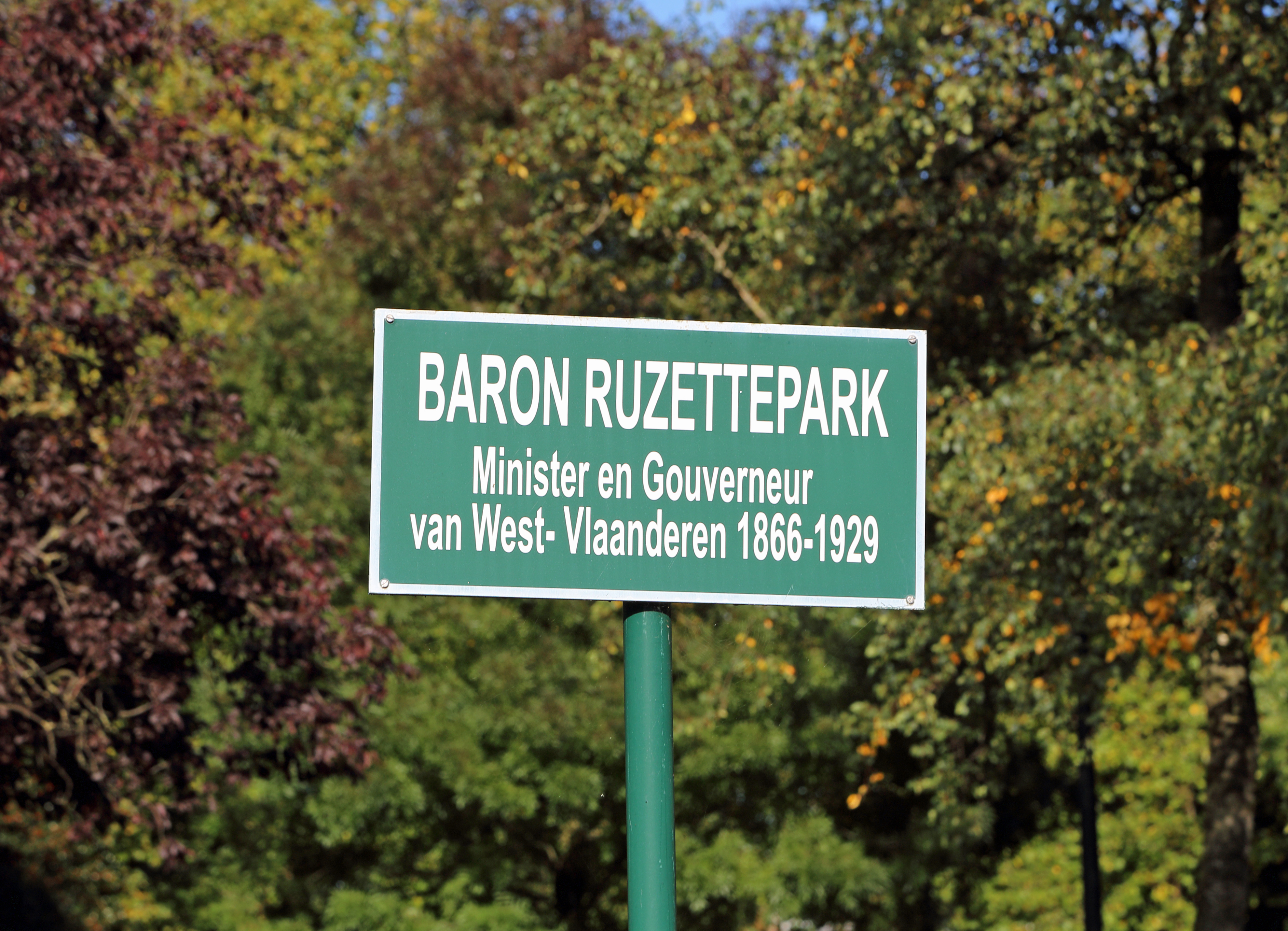 Bruges (Belgium): Baron Ruzette Park - detail